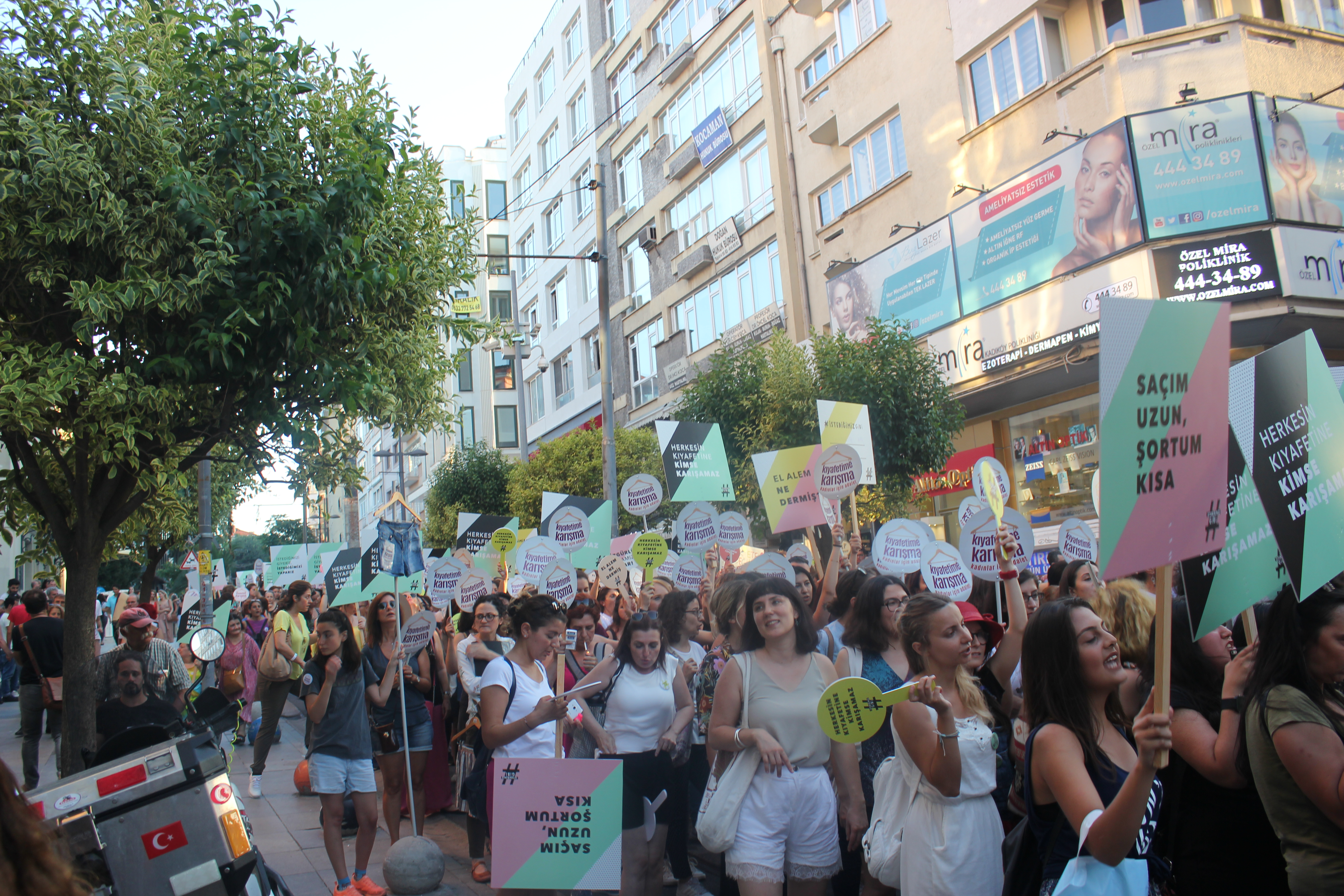 Picture from "Kiyafetime karisma" protest in Kadikoy, Istanbul on July 29, 2017.